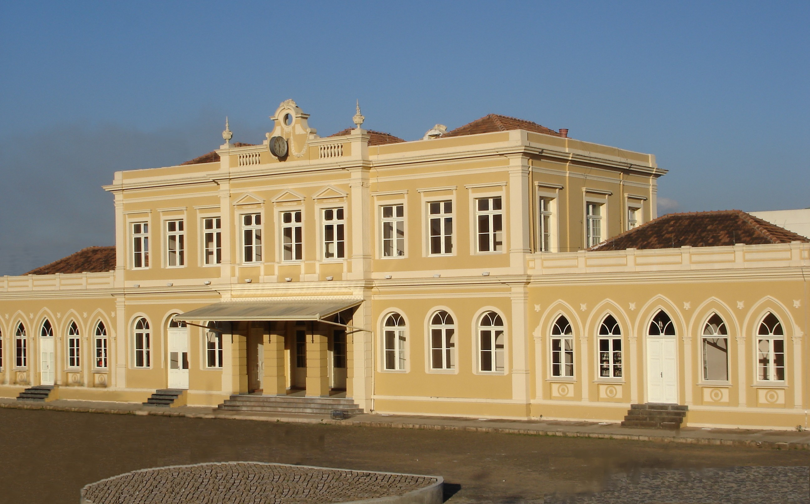 Former railroad station of Ponta Grossa.